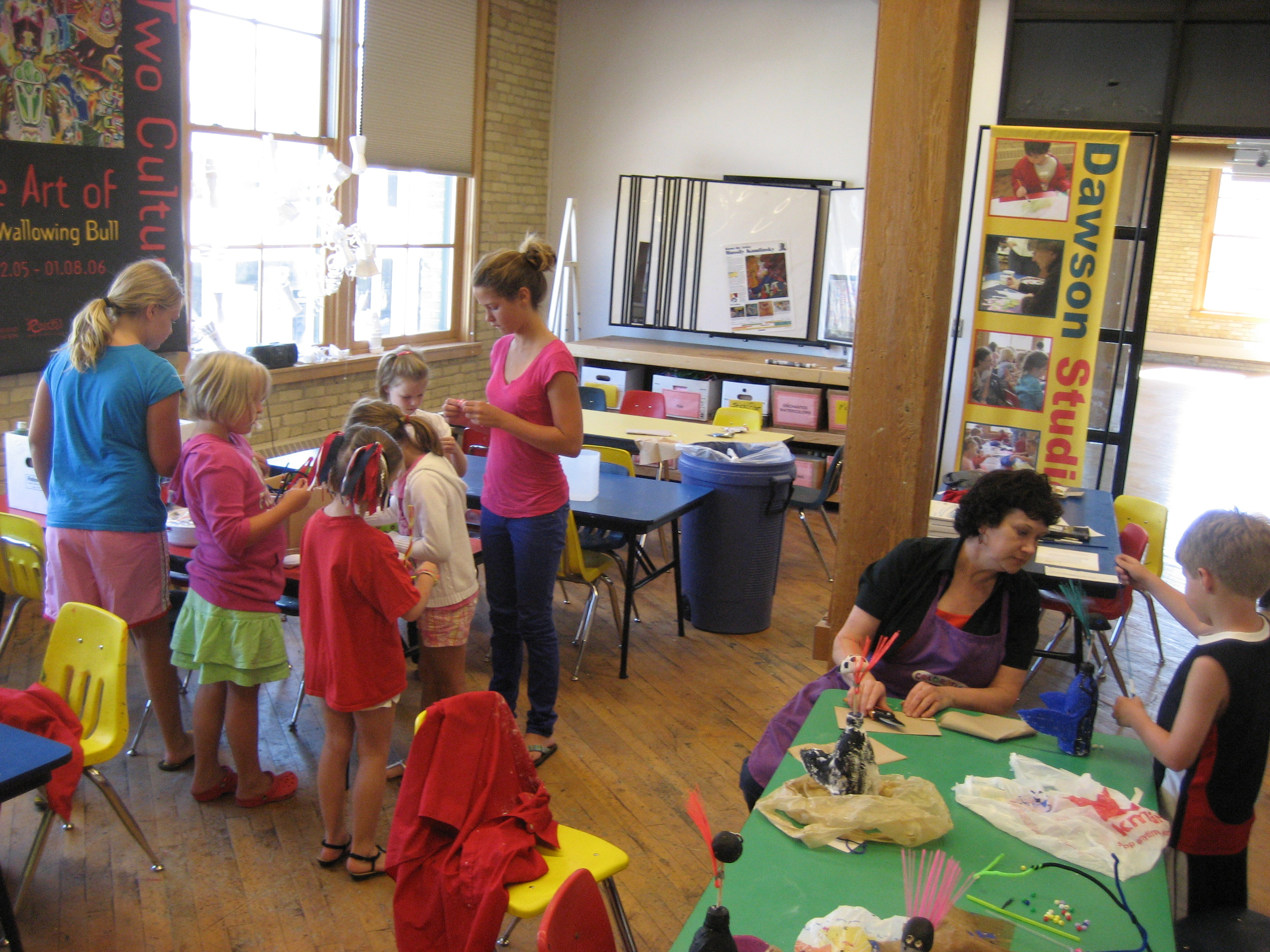 The Summer Art Camp for August, "See the Music, Hear the Art" was led by art educator Marcia Dronen and inspired by our "White Album" exhibition.